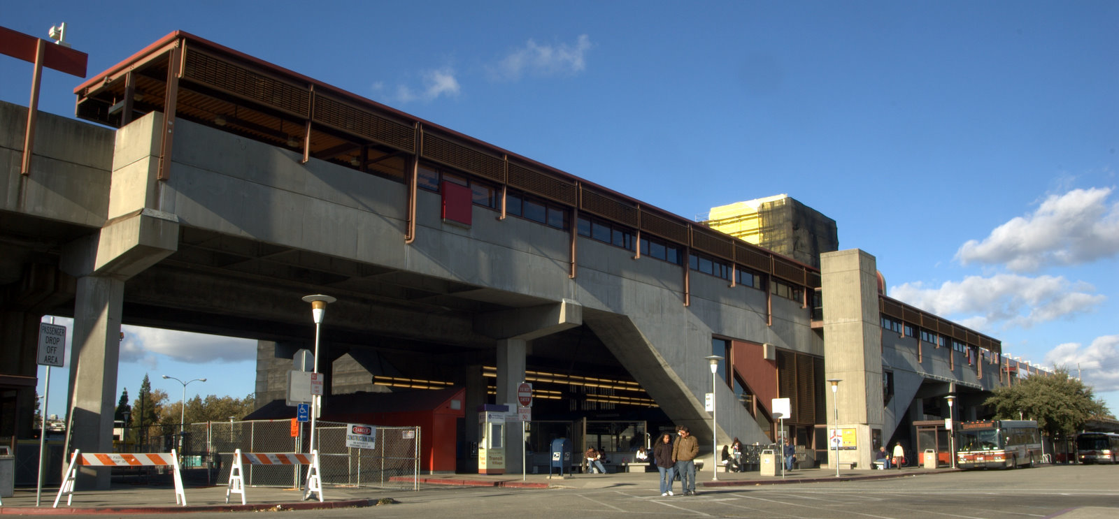 The front entrance to the Pleasant Hill (BART station)